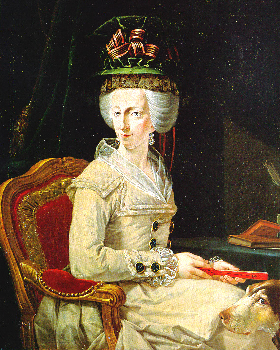 Portrait of Archduchess Maria Amalia of Austria (1746-1804)label QS:Lit,"Ritratto di Maria Amalia d'Austria, duchessa di Parma e Piacenza" label QS:Len,"Portrait of Archduchess Maria Amalia of Austria (1746-1804)"